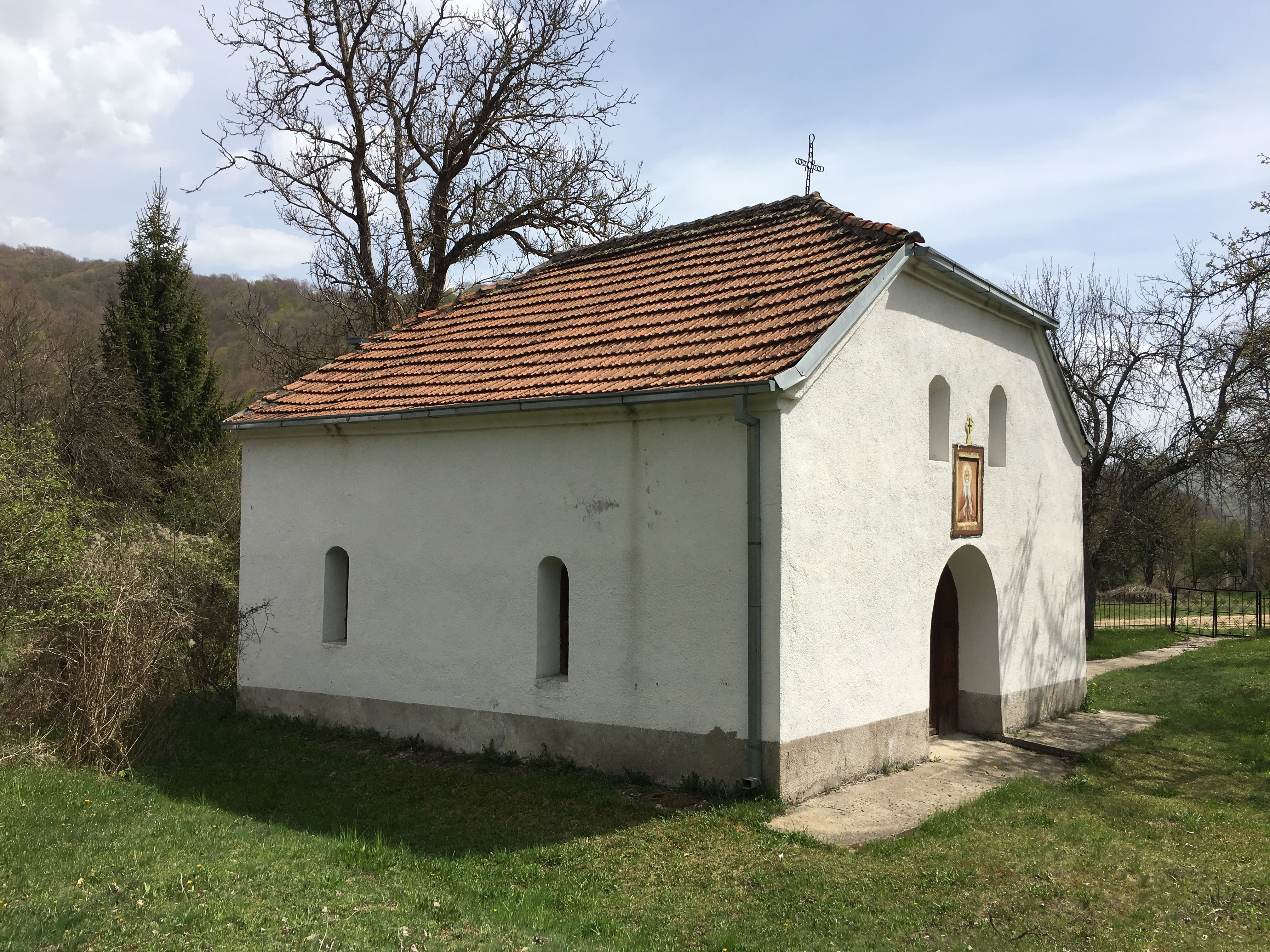 St. Elijah Church in the village of Luke